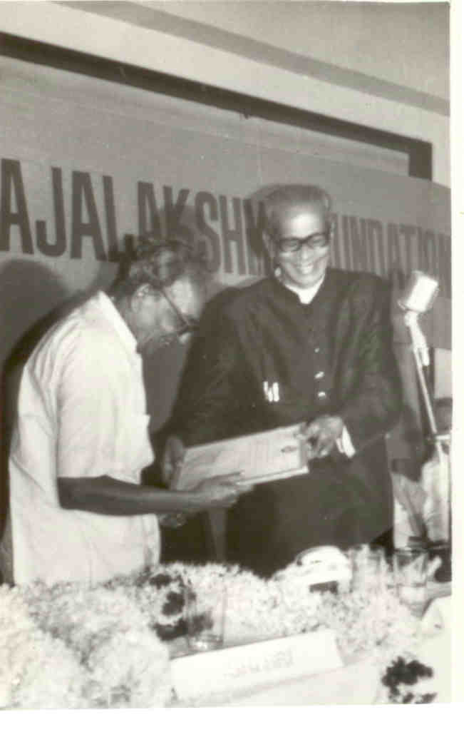 SRI SRI- famous Telugu poet, receiving Raja Lakshmni Foundation award